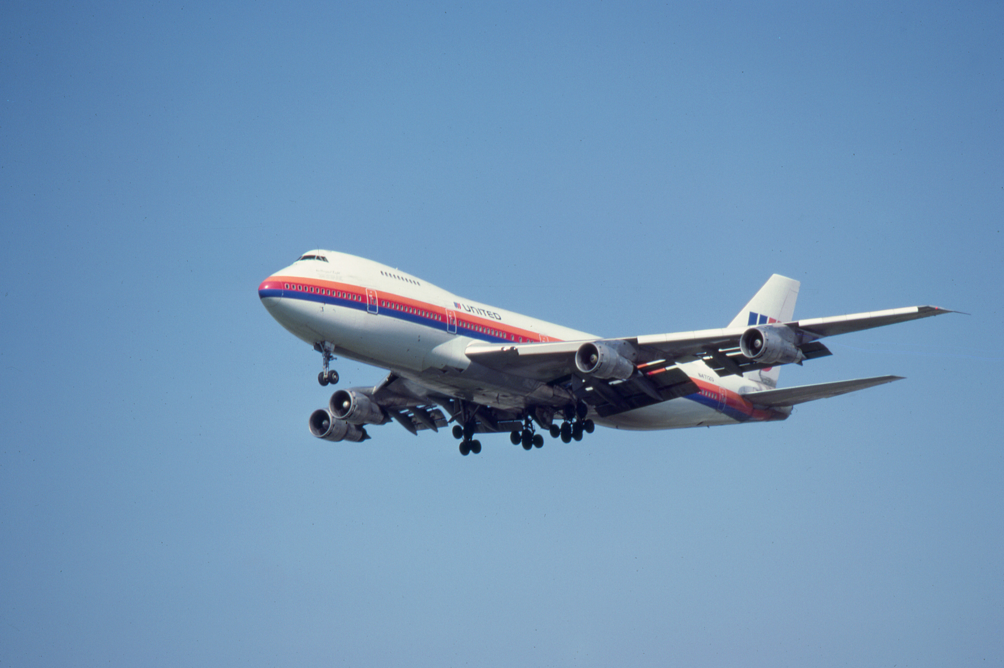 LAX 1978(Source page states "Taken on August 9, 2011", but this might actually be the date tag on the electronic version, such as a date of scanning.) N4712U, nicknamed "the Original Eight" Names painted below the nickname are the world's first 8 stewardesses: Ellen Church, Ellis Crawford, Inez Keller, Margaret Arnott, Cornelia Peterman, Harriet Fry, Jessie Carter, Alva Johnson Boeing 747-122/SF cn/serial number: 19757/67 delivered to United Airlines in August 1970 as N4712U to Pan American World Airways in 1985 as N4712U to GE Capital Corporation (GECC) in 1991 as N4712U to Aeroposta in 1992 as N4712U to Kabo Air in 1993 as N4712U, leased from Aeroposta returned to Aeroposta in 1993 as N4712U to Southern Air Transport in 1994 as N4712U, converted to freighter to Polar Air Cargo in 1995 as N852FT withdrawn from use and stored in 2002